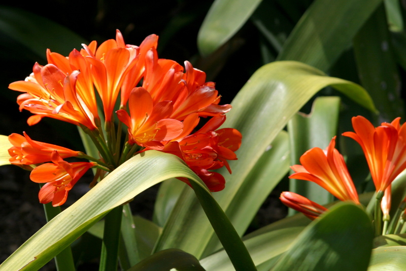 Unknown flower